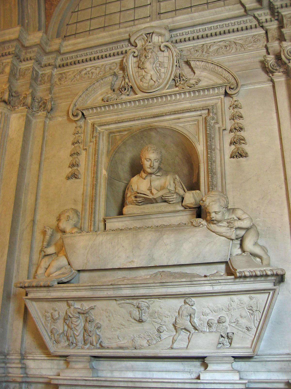 Tomb of Girolamo Raimondi by Andrea Bolgi and Niccolò Sale (1640s). In the Cappella Raimondi, San Pietro in Montorio, Rome. Picture by User:Torvindus.